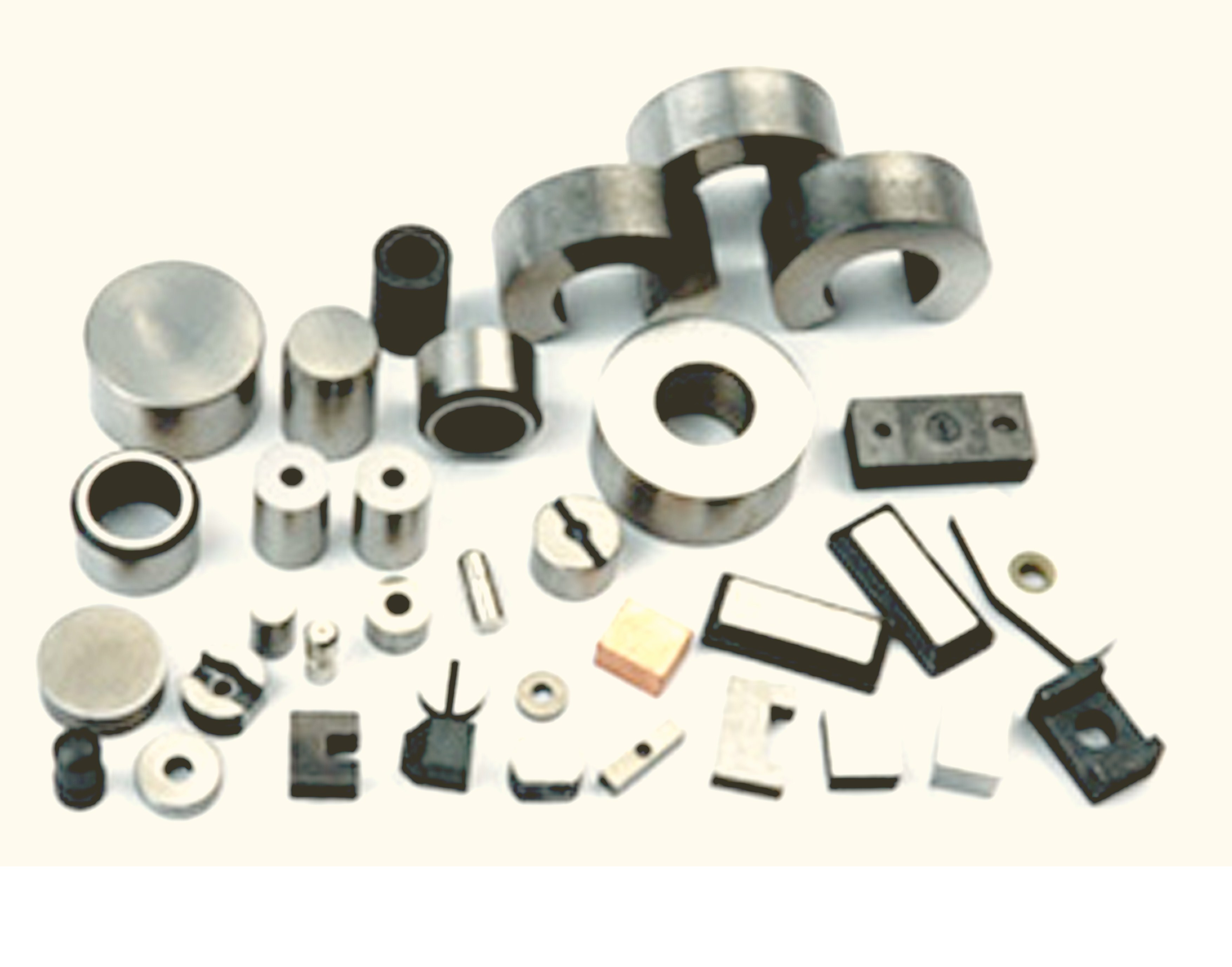 Sintering pieces.